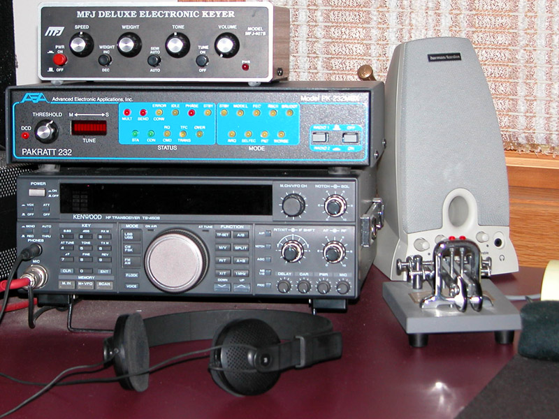 A typical 100 watt amateur radio high-frequency transceiver (Kenwood TS-450S), installed circa 1998. Also shown are an automatic keyer, paddles, lightweight headset, speaker and packet modem.